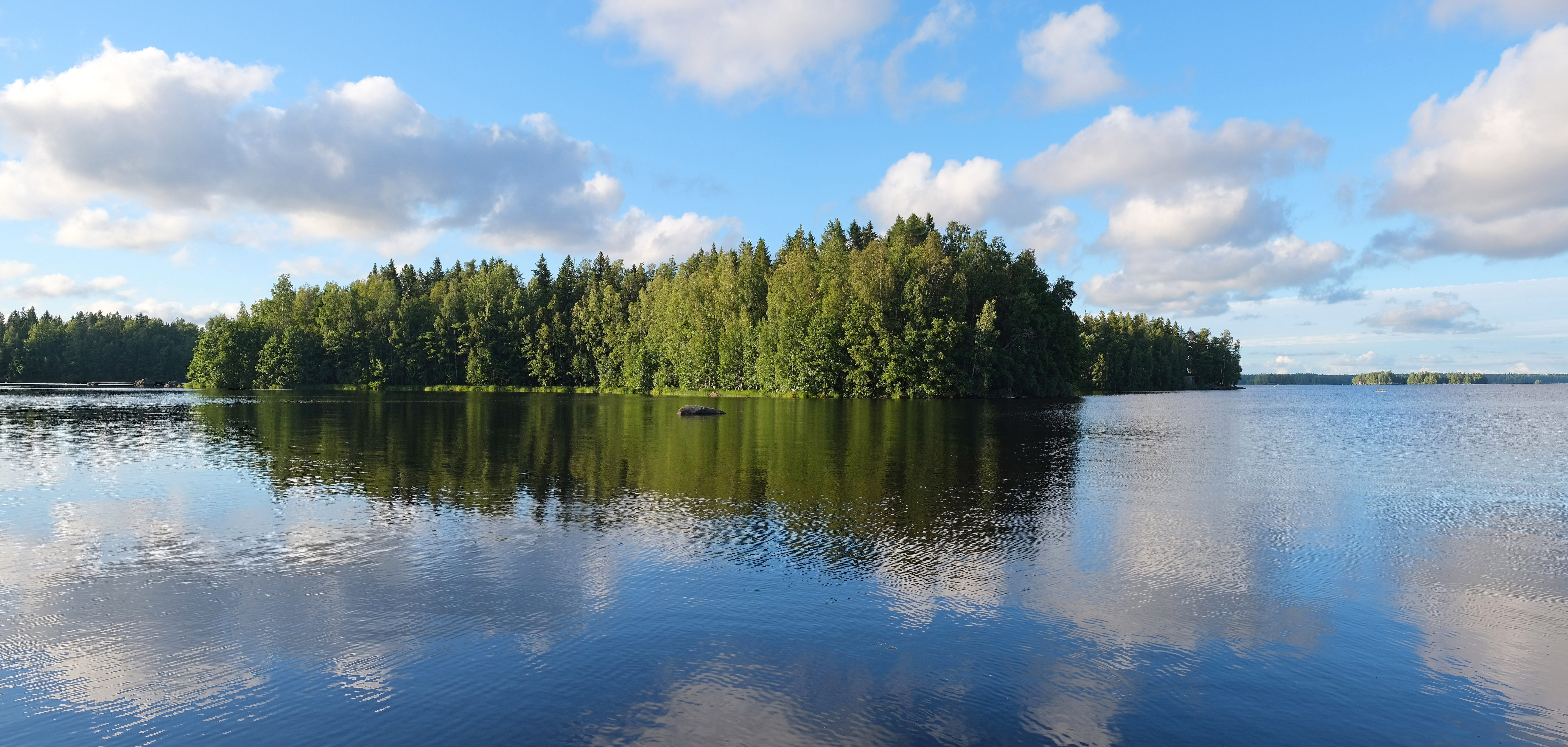 Panoramic view of Isojärvi, Pomarkku.